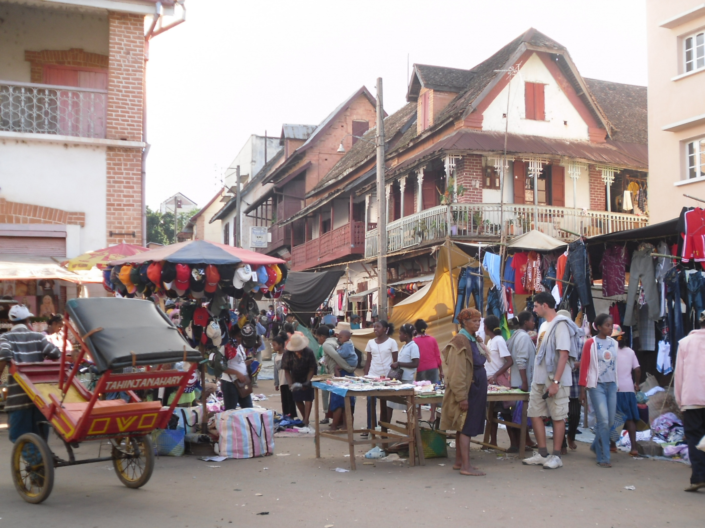 Ambositra market in center town